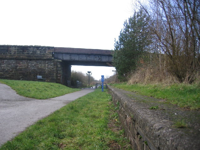 Road bridge over C2C Cycleway. Only about 140 miles from the other end of this cycle route across the country.